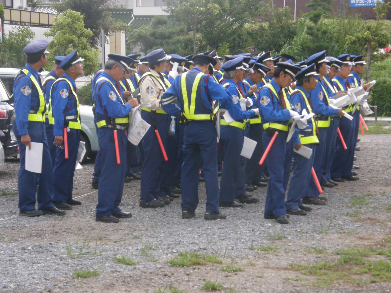 Security guard,警備員